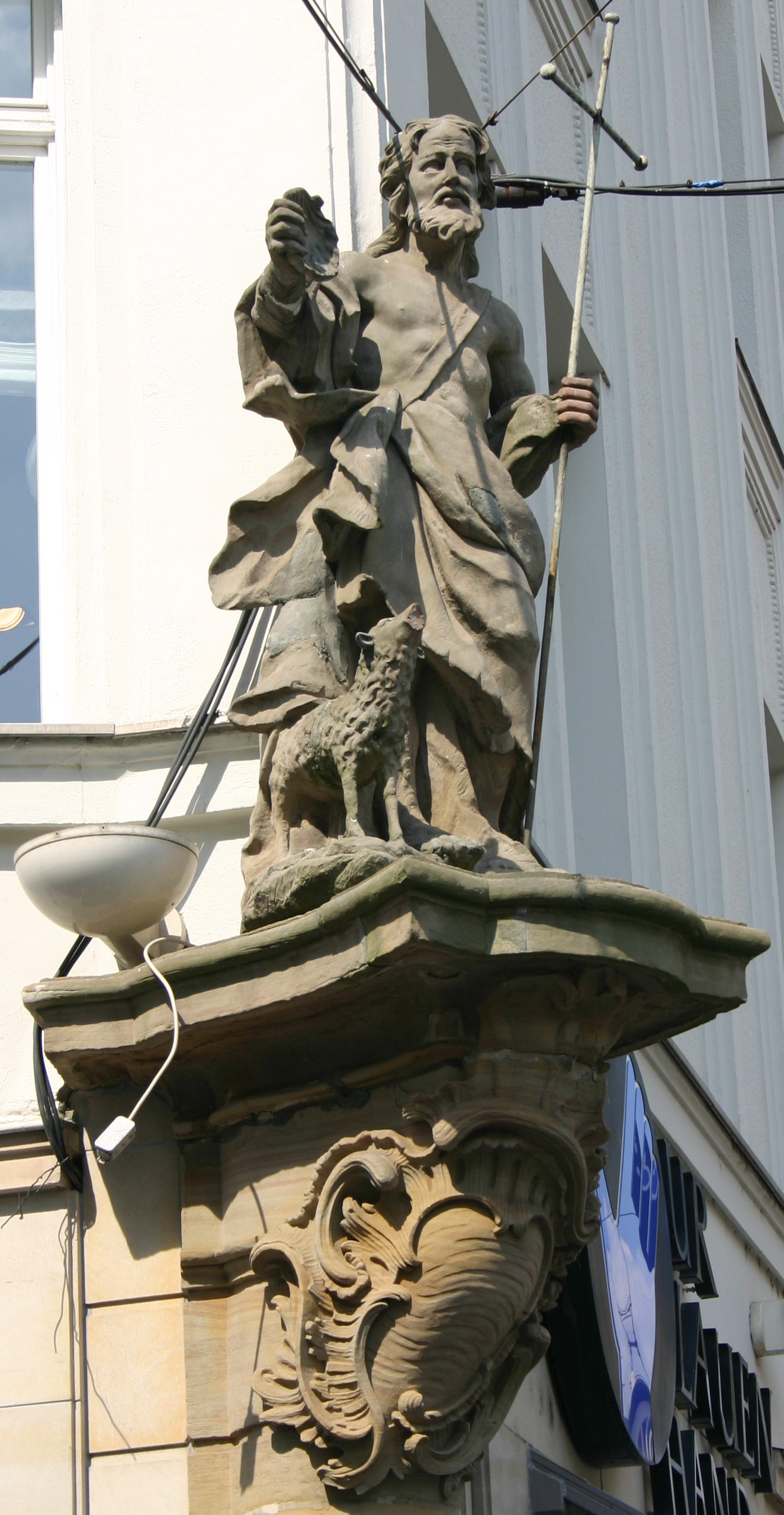 Sculpture of Saint John the Baptist in Trier, Germany (detail of a photo)